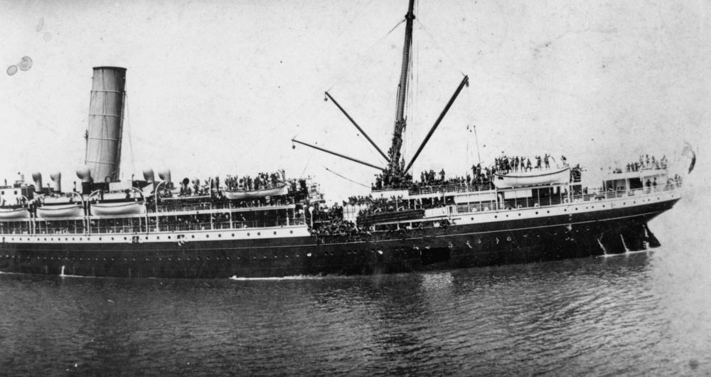 Troop ship Omrah leaving Brisbane, Queensland, 24 September 1914. She was the first troop ship to leave Brisbane with soldiers to serve in the First World War.